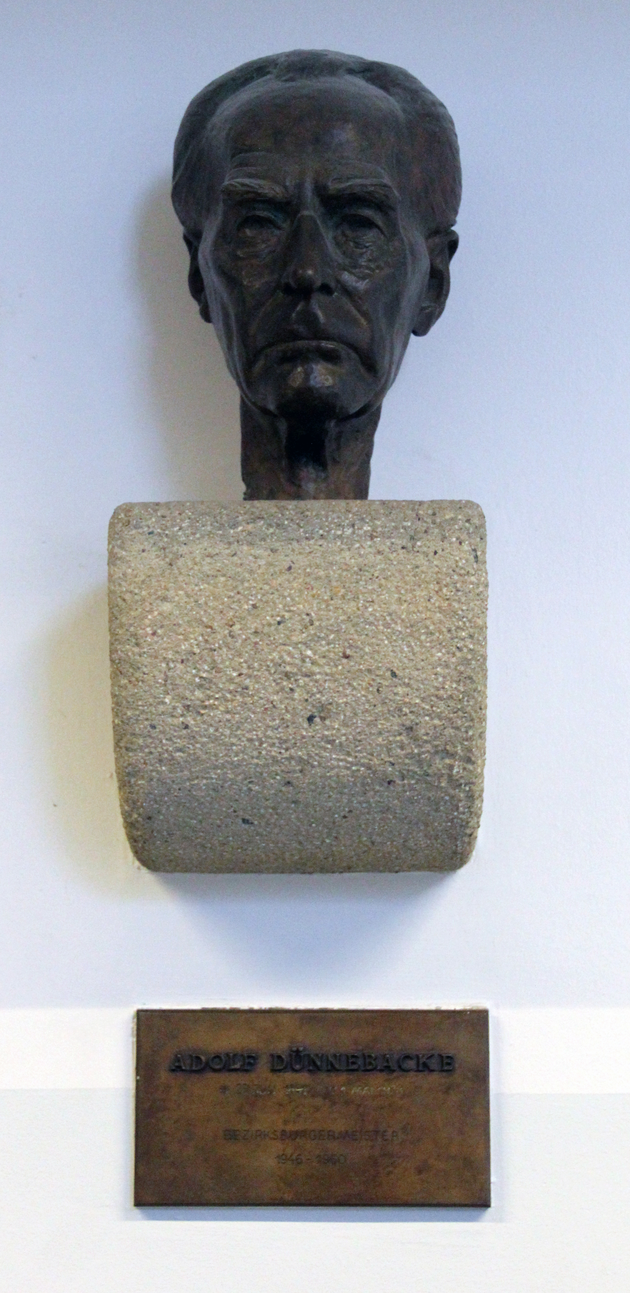 Bust, Adolf Dünnebacke, Eichborndamm 215, Berlin-Wittenau, Germany